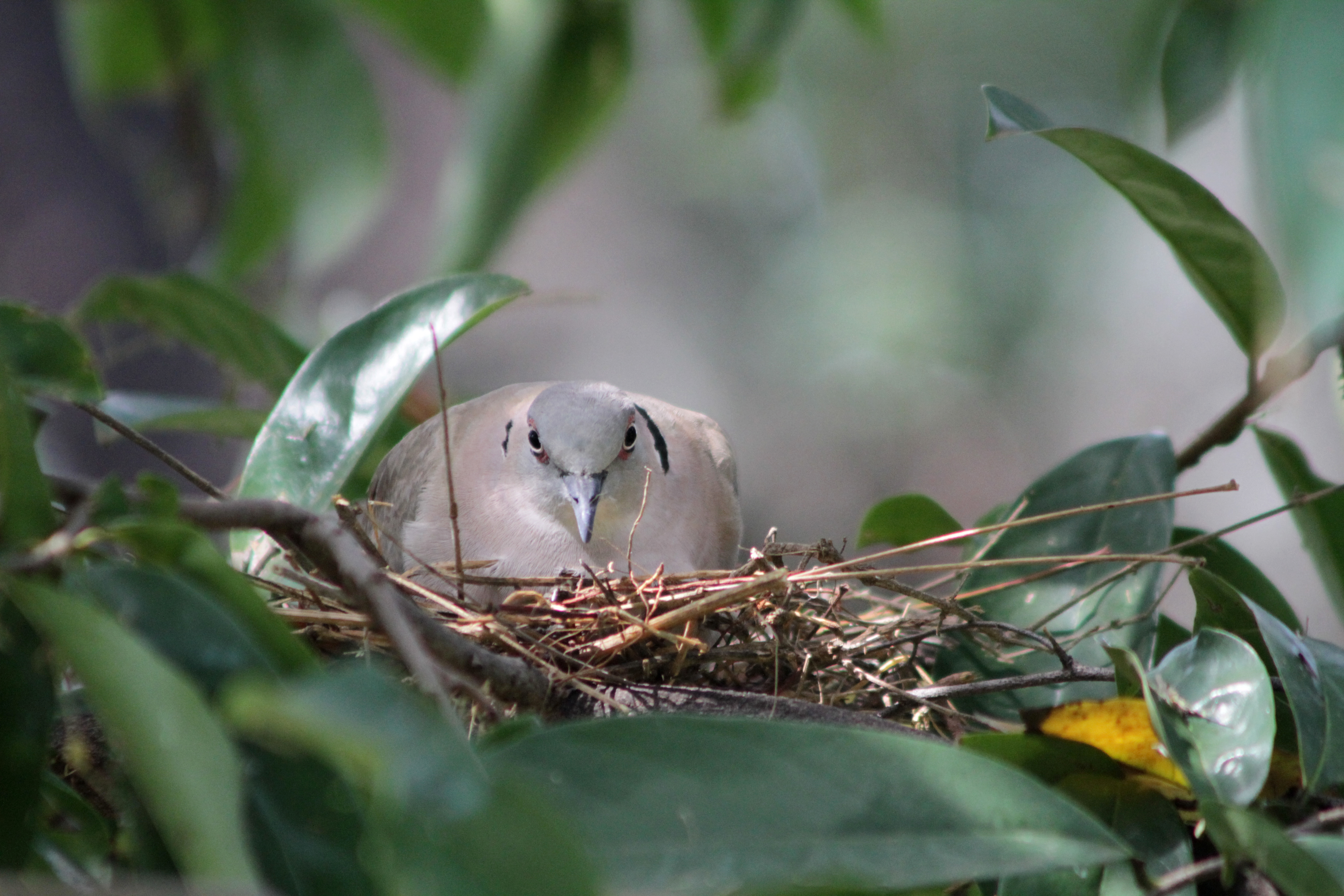 An adult African Mourning Dove on its nest in a tree near Baringo Lake, Kenya.